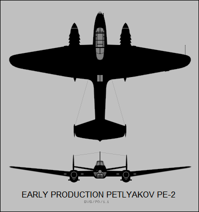 2-view silhouettes of the early production Petlyakov Pe-2